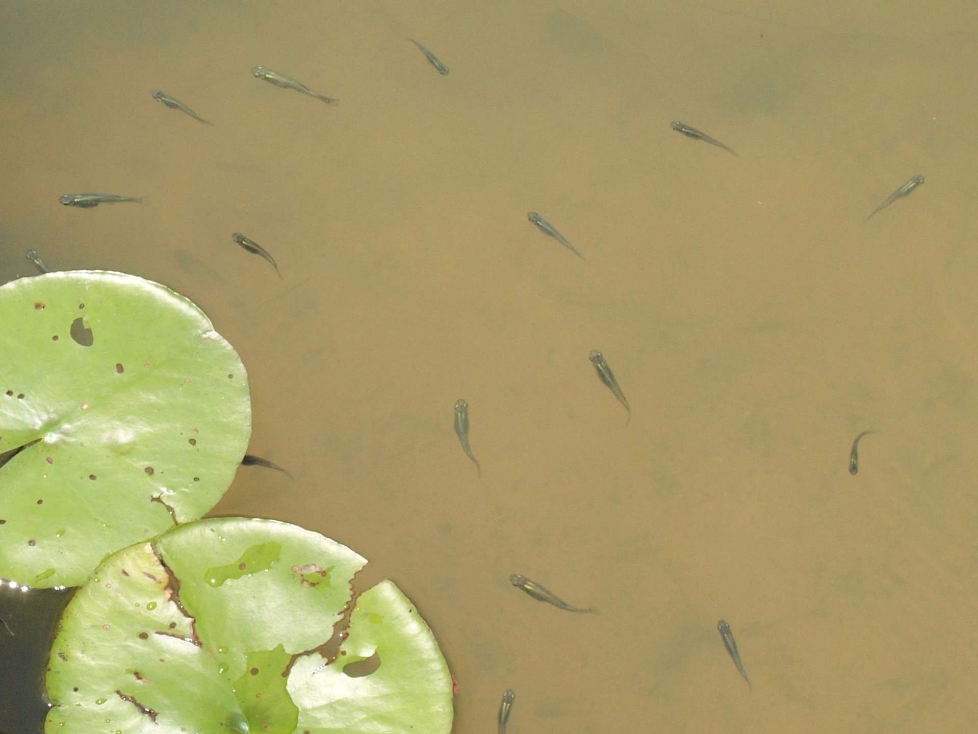 Overhead view of a group of Eastern mosquitofish (Gambusia holbrooki) in a pond in the Pee Dee region of South Carolina.